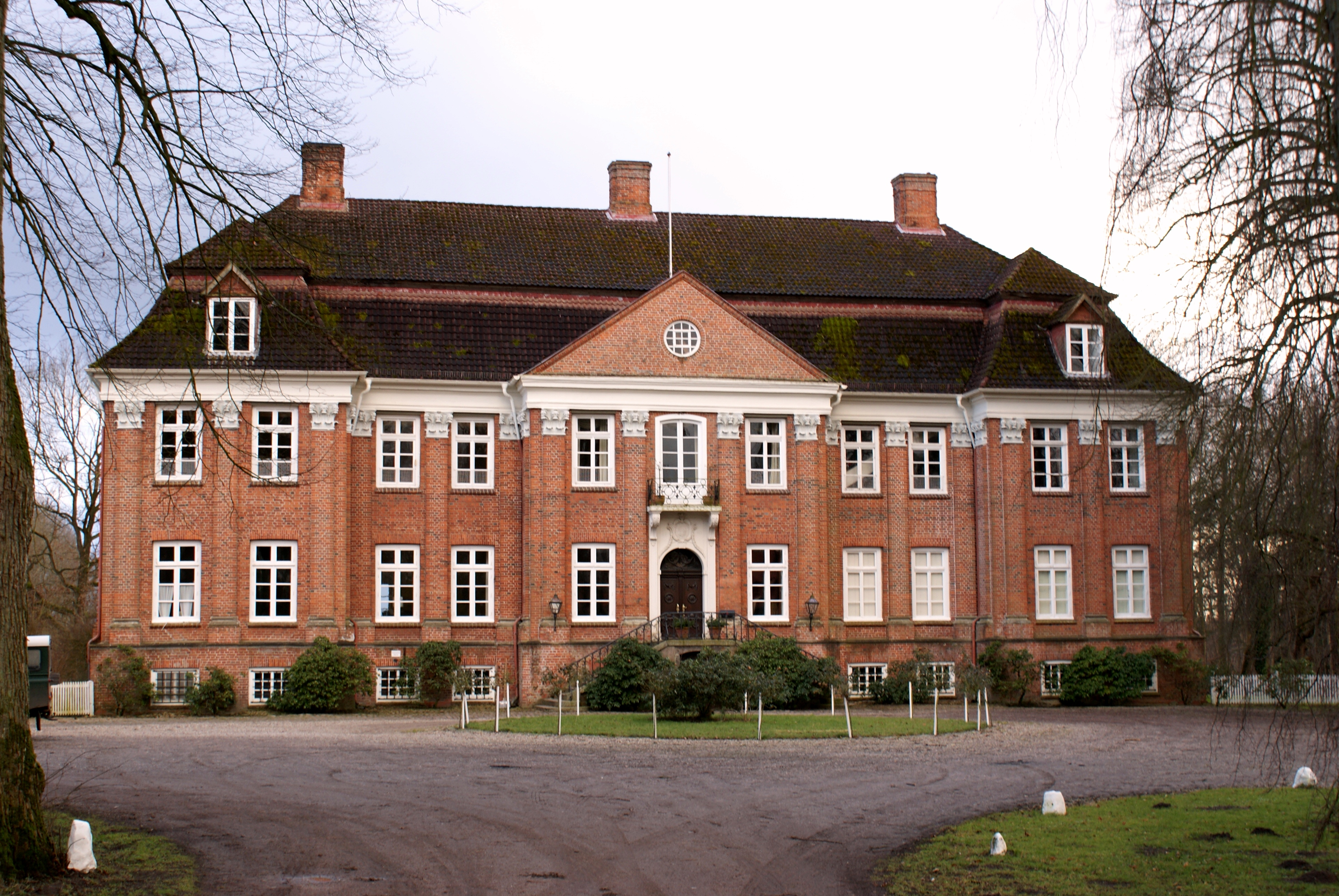 Pronstorf Manor